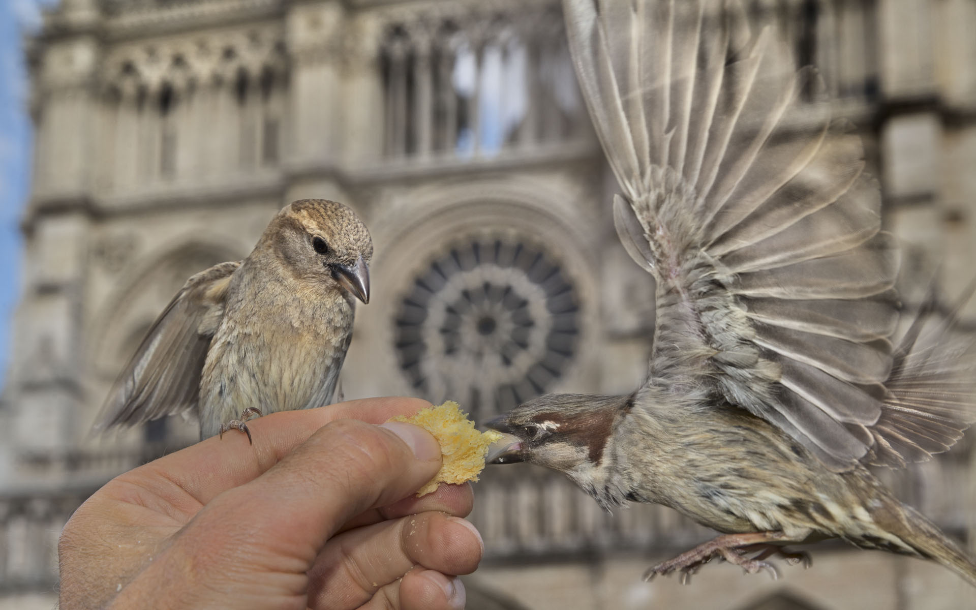 Sparrows eating little bits of brioche in front of cathédrale Notre-Dame in Paris